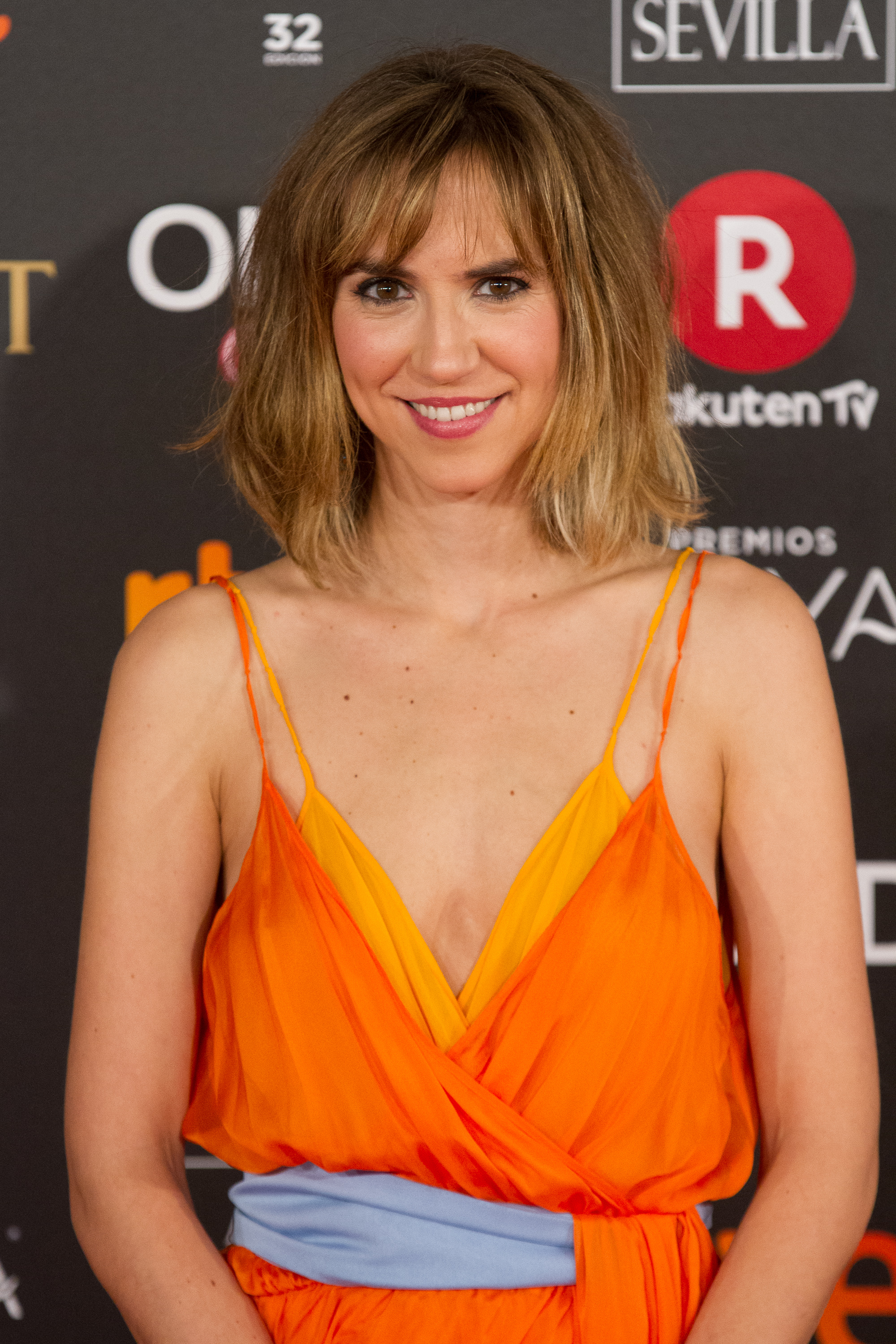 Aina Clotet at the 32nd Goya Awards, 2018.